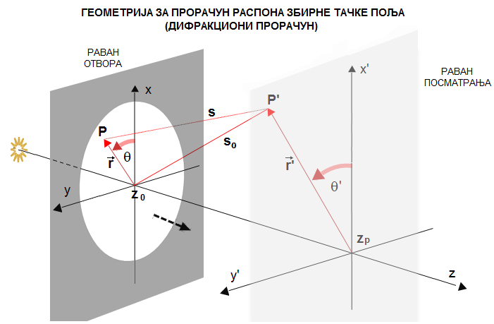 ГЕОМЕТРИЈА ДИФРАКЦИОНОГ ПРОРАЧУНА